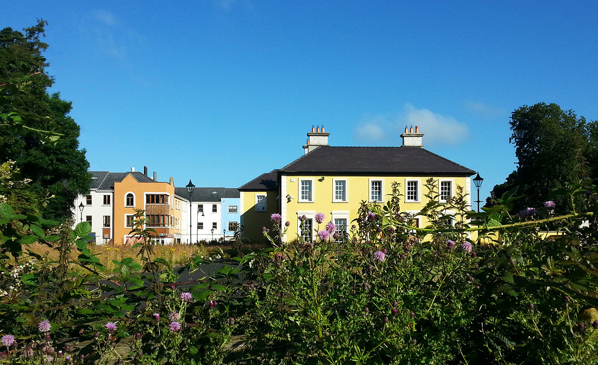 Ongar House - Dublin 15